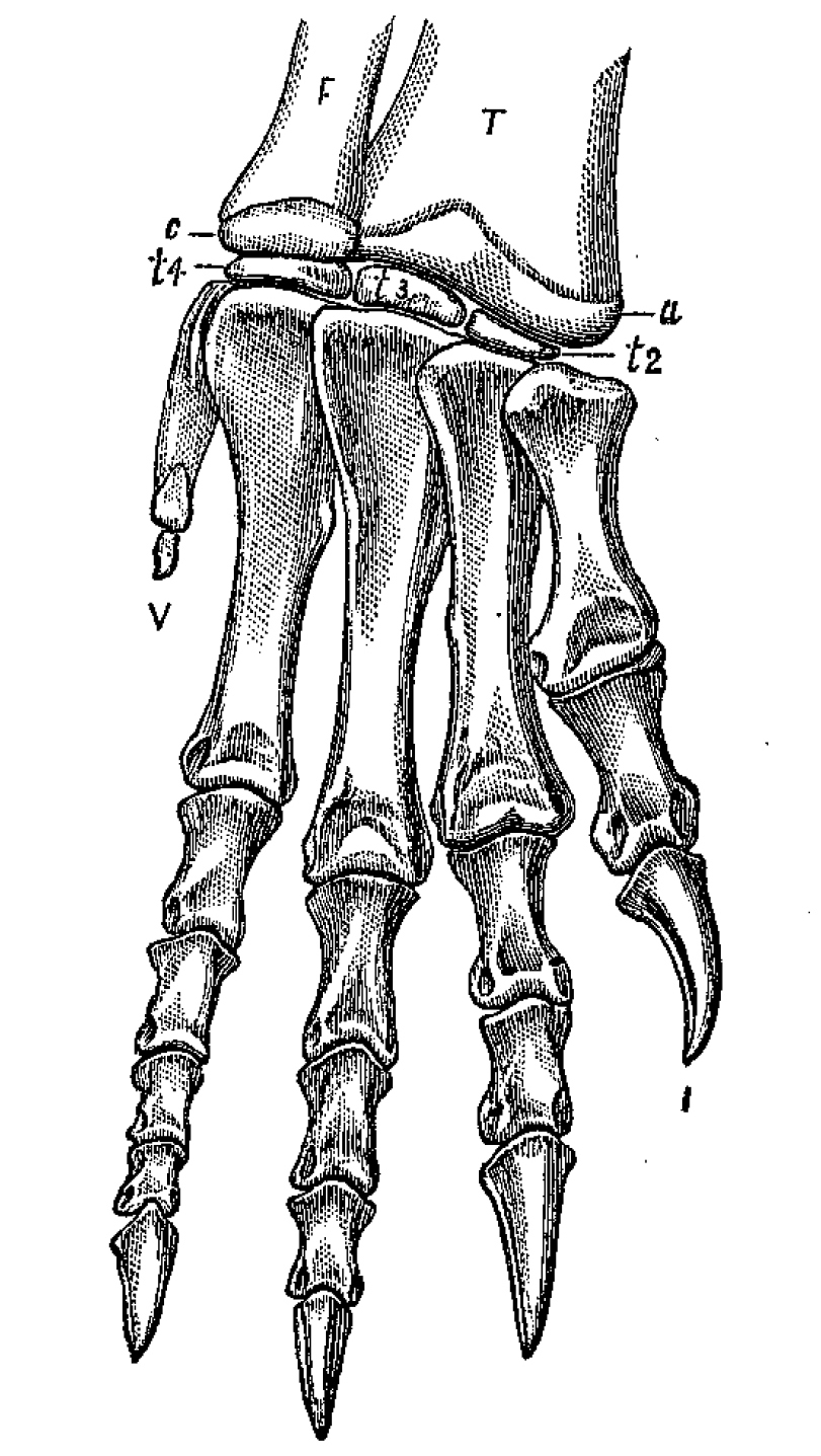 Original figure caption: Right hind foot of Anchisaurus major, Marsh; front view. One-fourth natural size.Additional note: The taxon was re-assigned to the freshly erected genus Ammosaurus by Marsh in 1891. Today, Ammosaurus major (Marsh, 1889) is considered a junor synonym of Anchisaurus polyzelus (Hitchcock, 1865).[1] ↑ Adam M. Yates (2010): A revision of the problematic sauropodomorph dinosaurs from Manchester, Connecticut and the status of Anchisaurus Marsh. Palaeontology 53(4):739-752